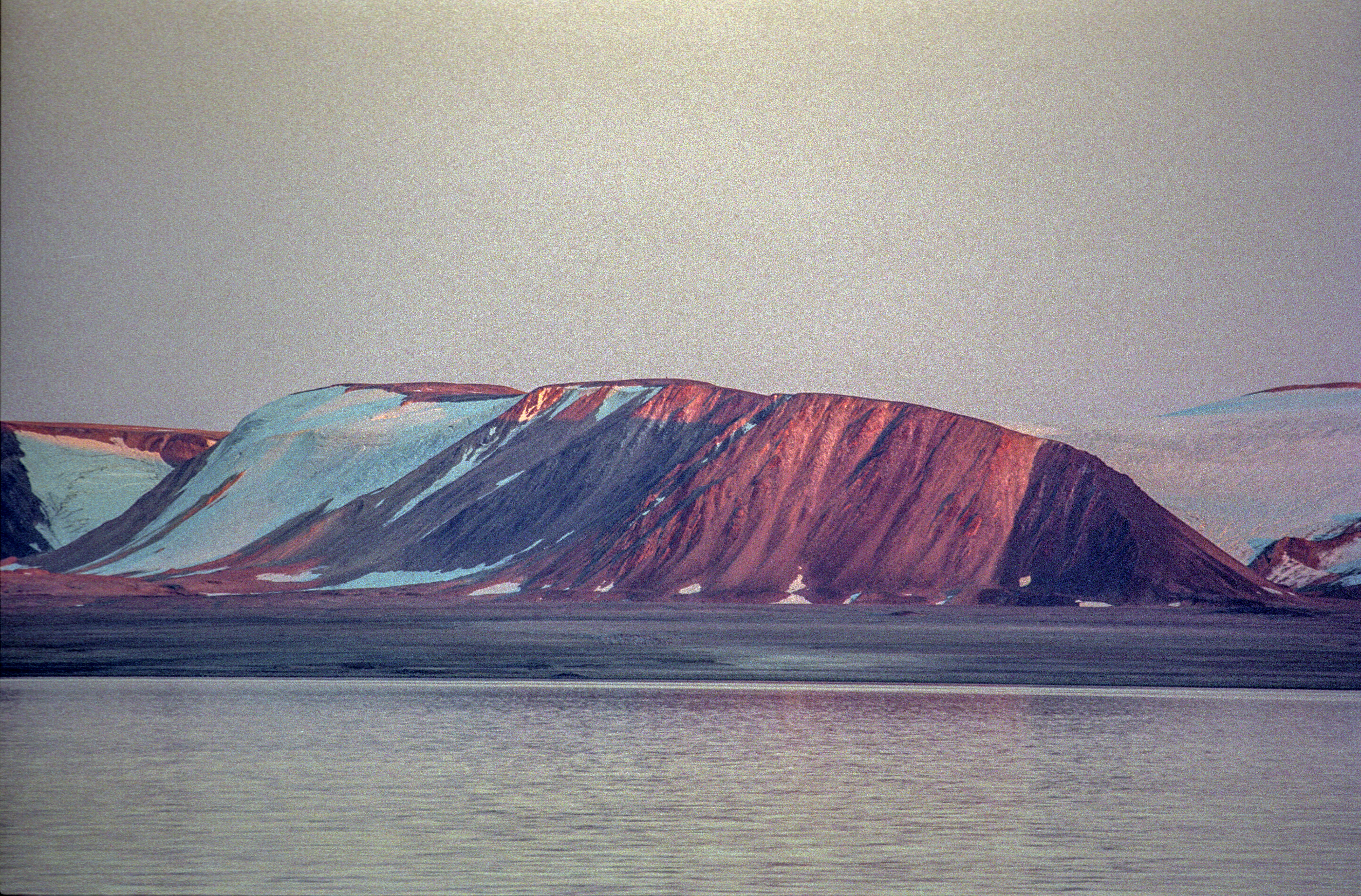 Svalbard, Northeastern Spitsbergen, northeast coast, This is the mountain Olympen (the easternmost part of Heclahuken = Hecla Hoek), with the glacier Reinbogbreen to the right. The plain in the foreground is Basissletta.